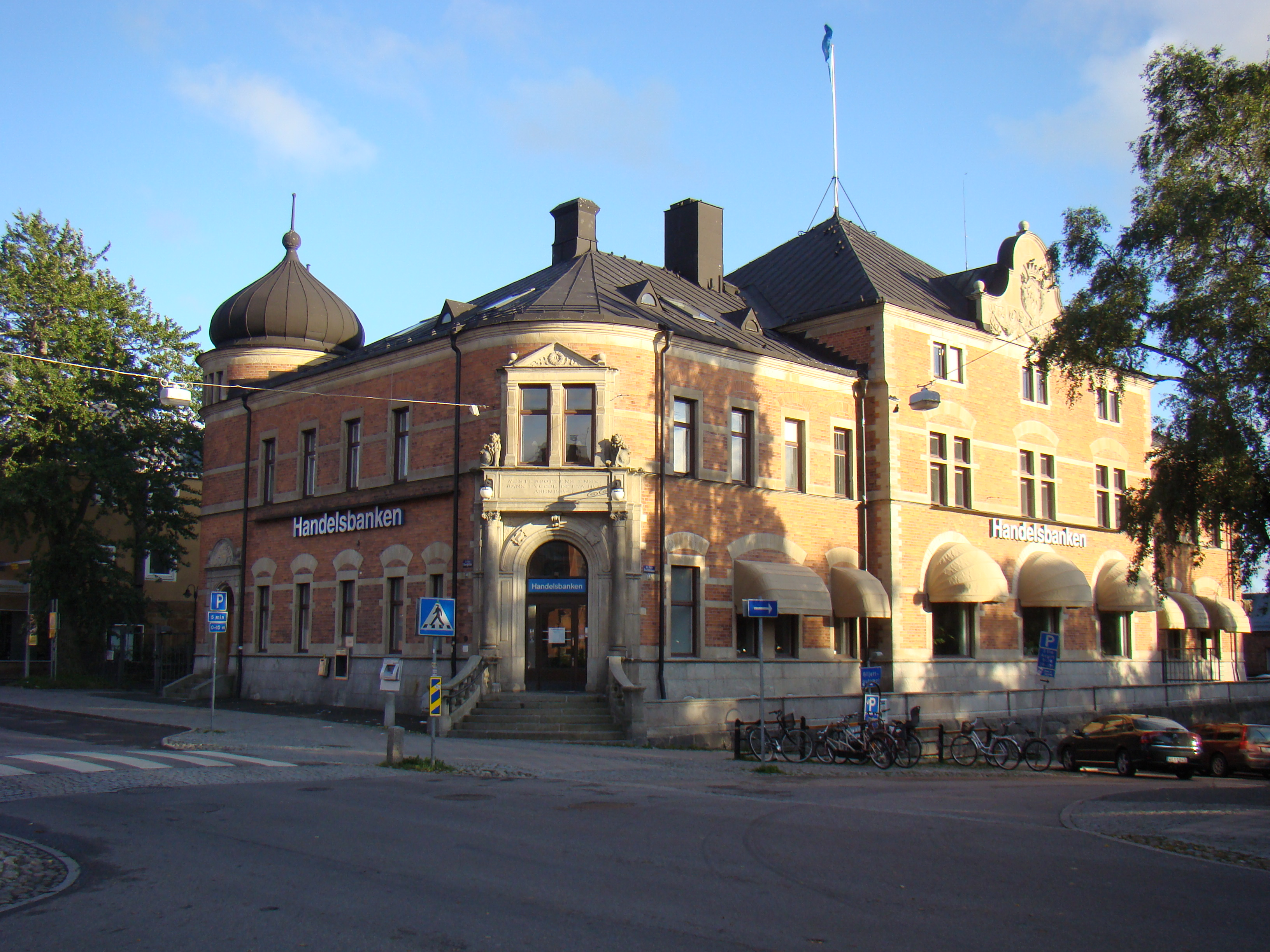 Handelsbanken Umea